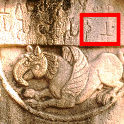 "dǎnam" Brahmi letters on Sanchi inscription